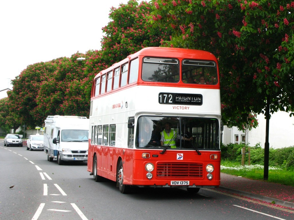 An enthusiasts' bus tour in Goodrington, Devon. The vehicle is an ex-Devon General Warship Class Bristol VRT with convertible (open top or roofed) body by Eastern Coach Works, number 937 Victory (VDV 137S).